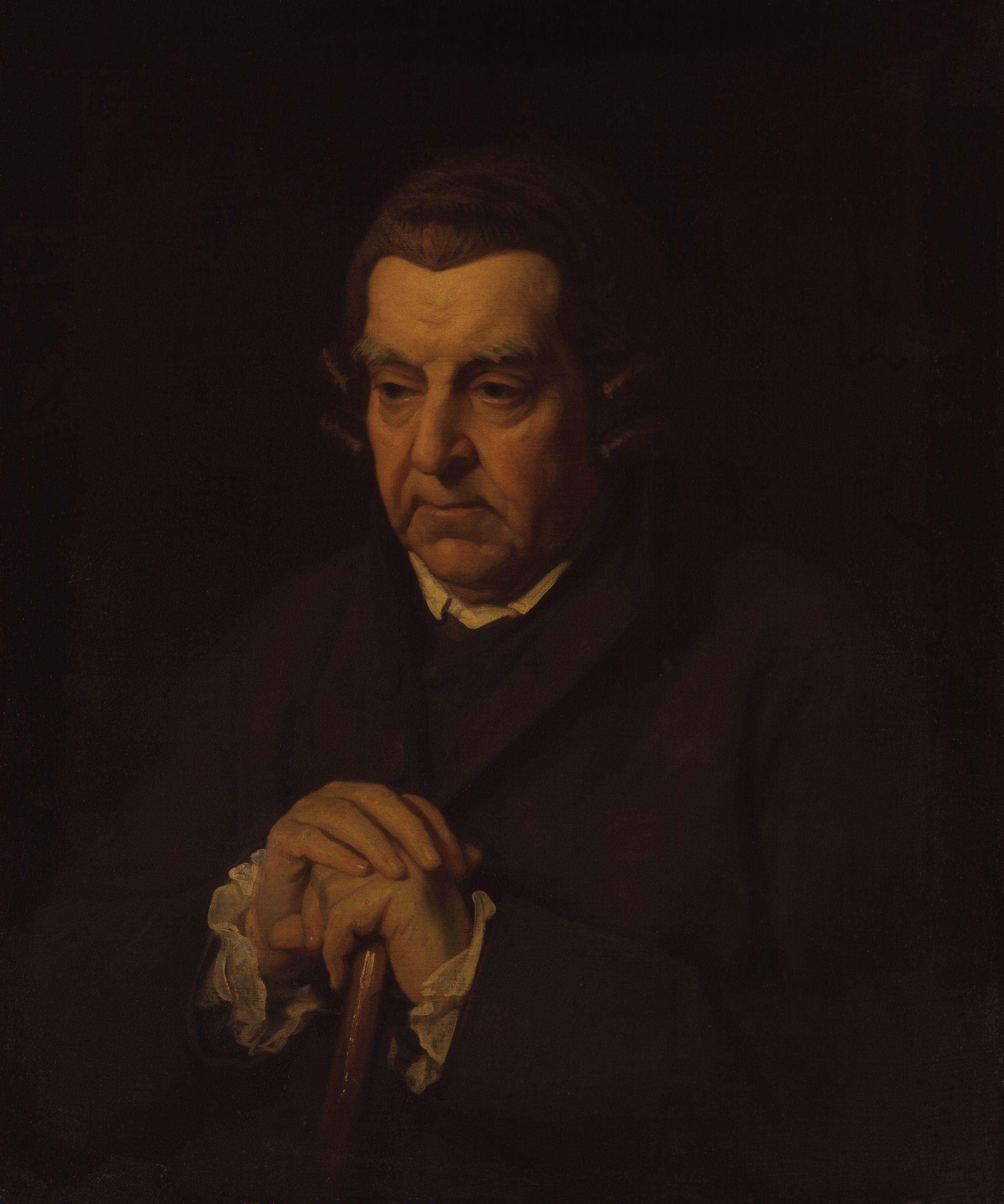 Edward Thurlow, Baron Thurlow, by Thomas Phillips (died 1845). All images in this batch have been confirmed as author died before 1939 according to the official death date listed by the NPG.